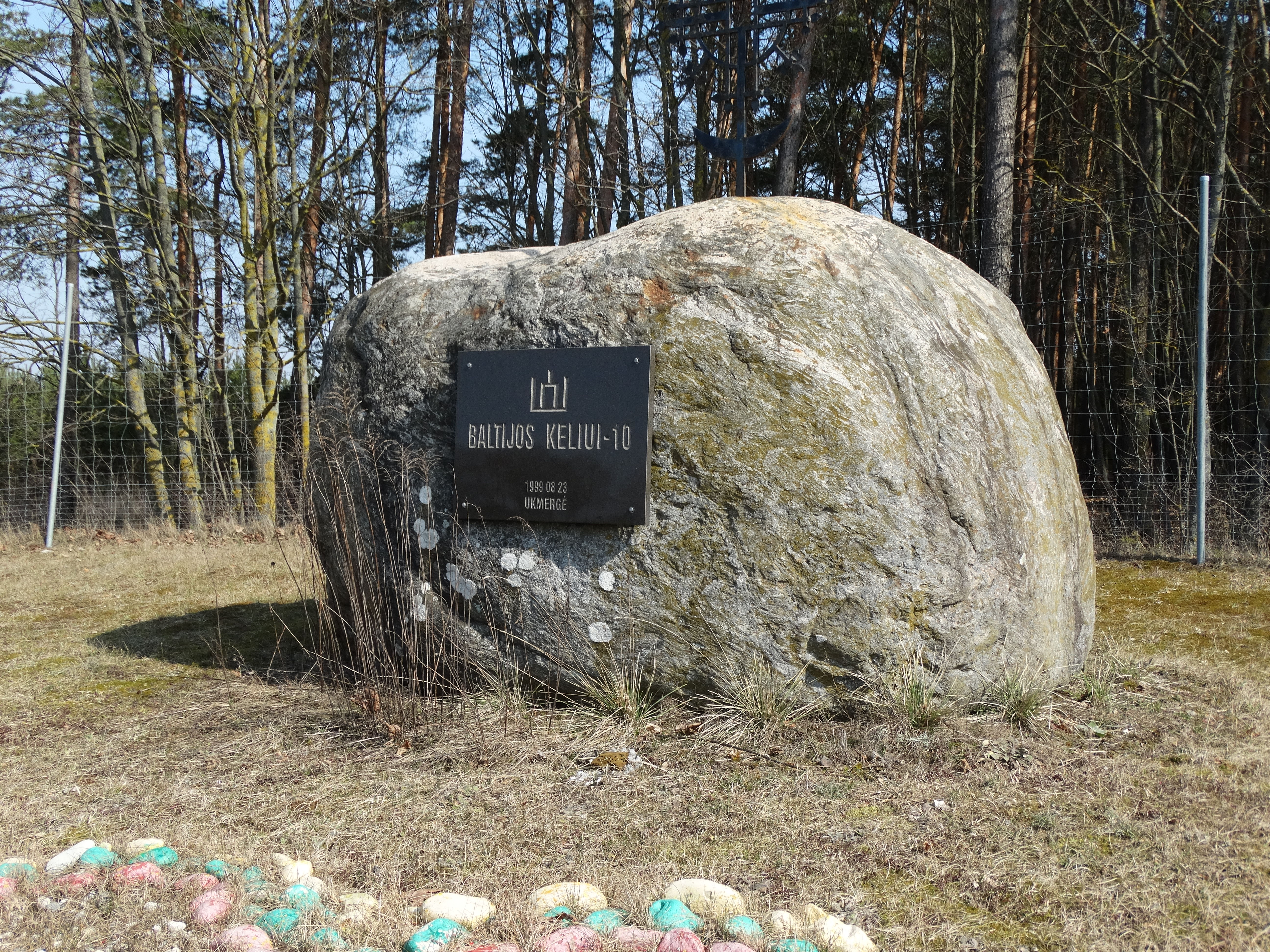 Baltic way monument (10 years), by Ukmergė, Lithuania